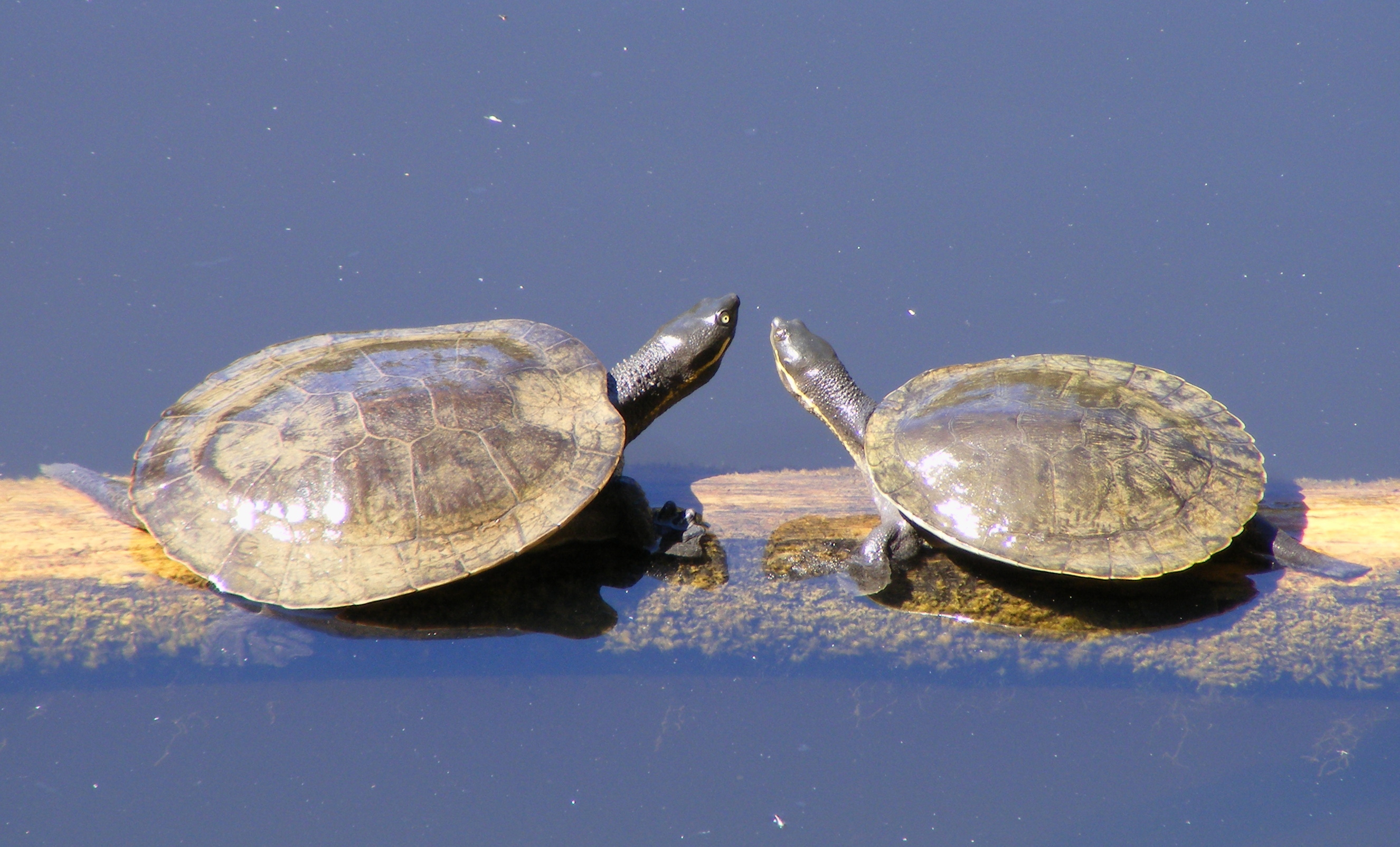 A pair of Macquarie Turtles, (Emydura macquarii) on a log at Warrawong sanctuary - near Mylor in the Adelaide Hills, South Australia